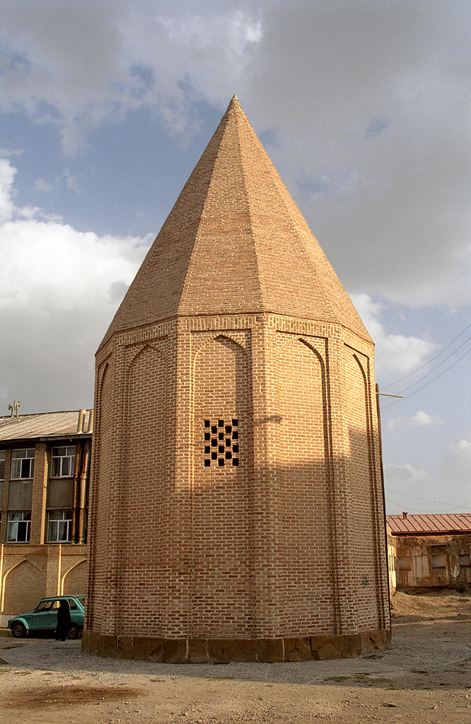 Borj-e Qorbân, a twelve sided tomb-tower from the 13th century, Hamadan, Iran.